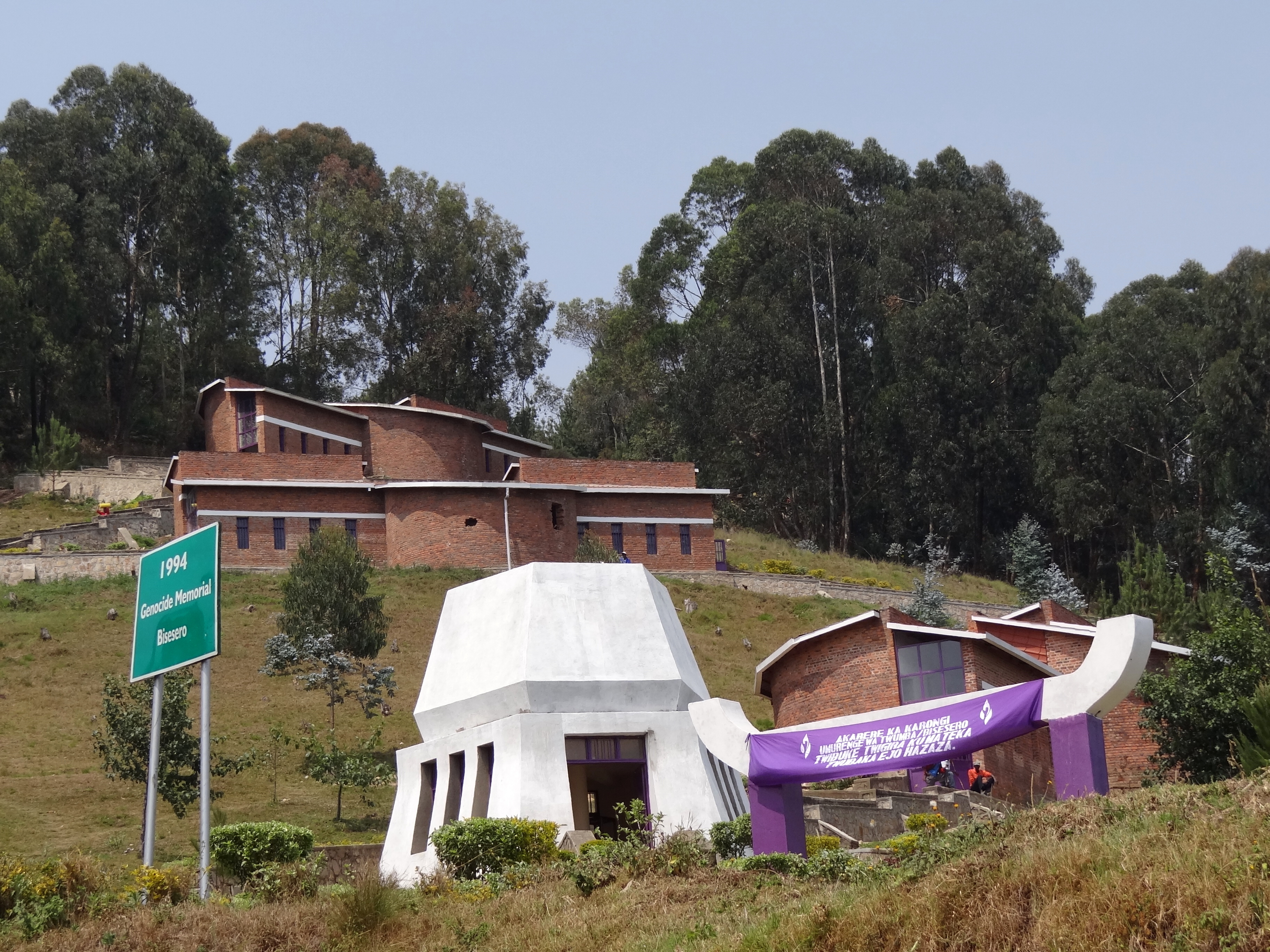 Bisesero Genocide Memorial - Near Karongi-Kibuye - Western Rwanda